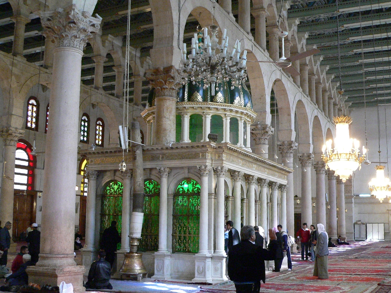 St John's Chapel inside the Ummayad mosque